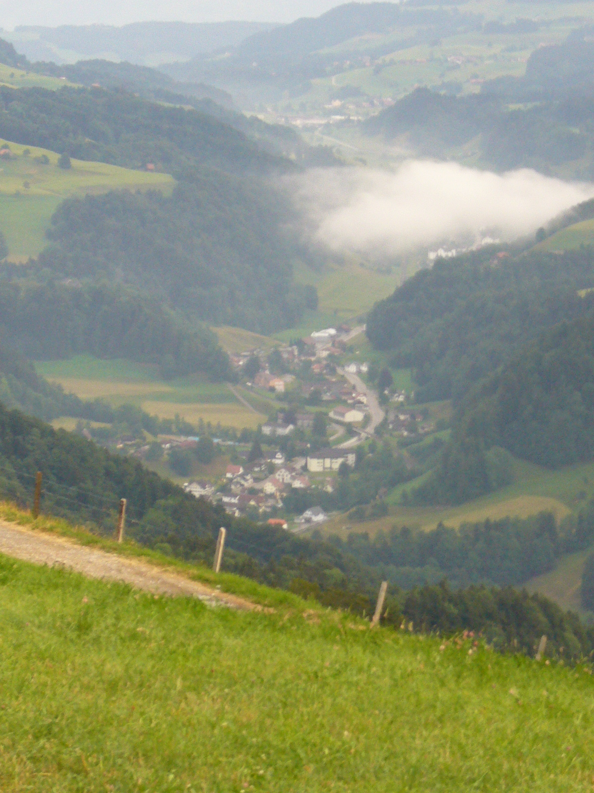 village of Steg/Fischenthal, canton of Zurich, Switzerland. Picture taken on the top of the mountain Hörnli by Peter Berger, July 22, 2006.